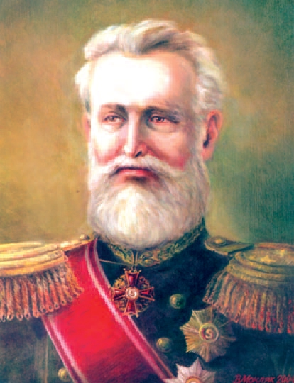 Klavdy Kabalevsky